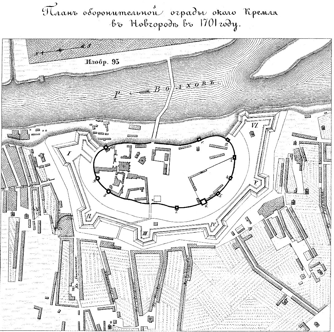 Plan of fortifications near the Kremlin in Novgorod in 1701.